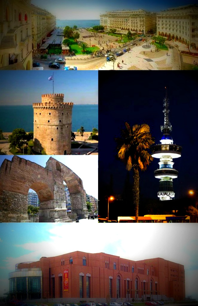 This is a collage of Thessaloniki's monuments.. I grant anyone the right to use this work for any purpose, without any conditions, unless such conditions are required by law.